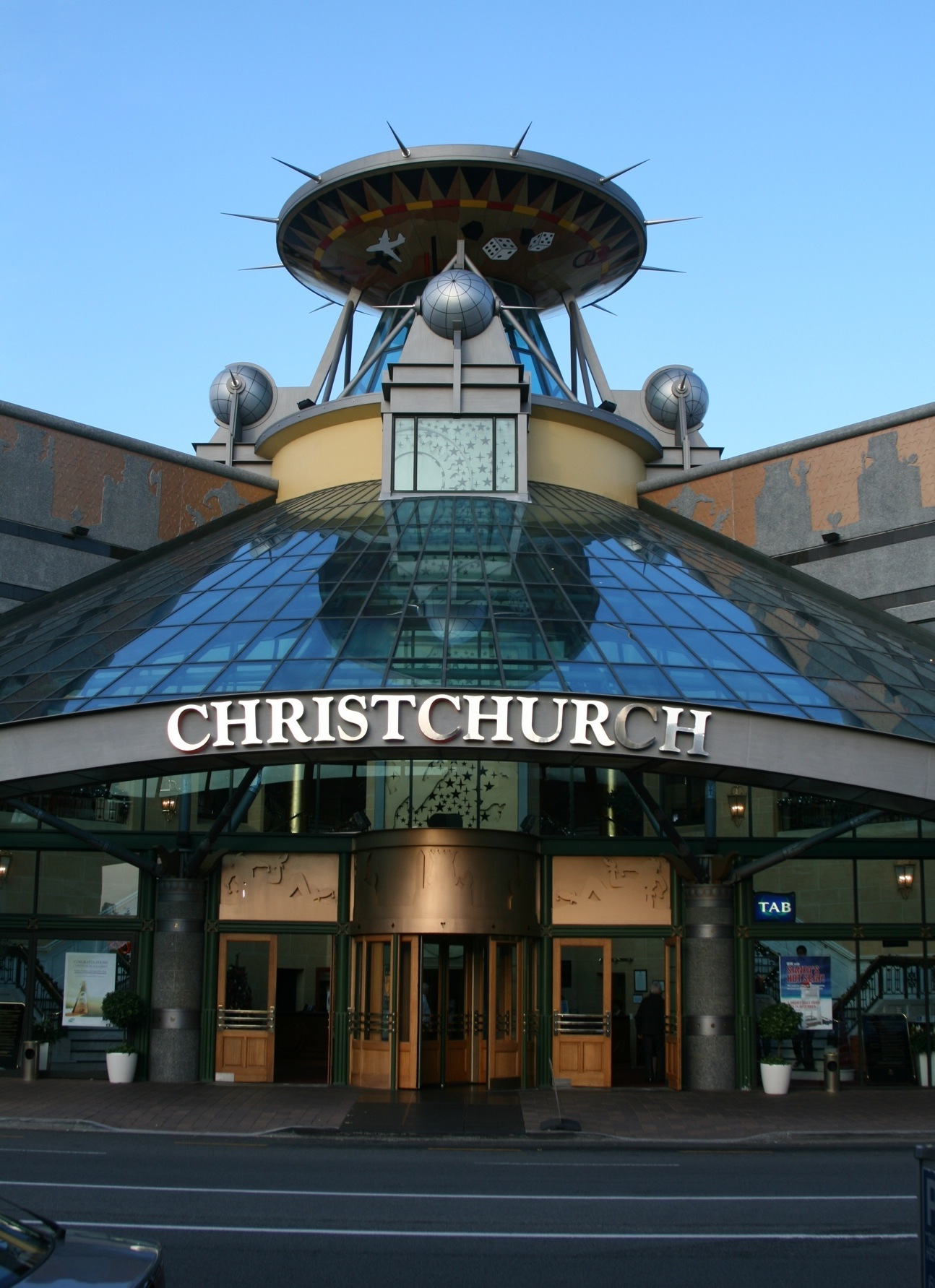 A portion of a casino at Christchurch, New Zealand shows a hybrid architectural style that has elements of Victorian / Jules Verne science fiction and so is related to Science Romance or Steampunk, depending on whether the architect intended this as an homage or in irony.